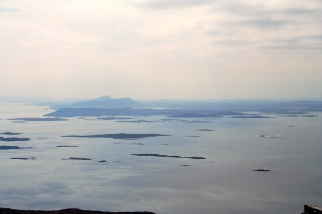 Langaigh in the Sound of Harris Langaigh the main landmass in this grid square is the long islet in centre foreground with the bigger island of Grodhaigh behind it. The twin peaks of Li a Tuath and Li a Deas which lay just to the south of Lochmaddy on North Uist are prominent in the background. Photo taken from the summit of Roineabhal on Harris